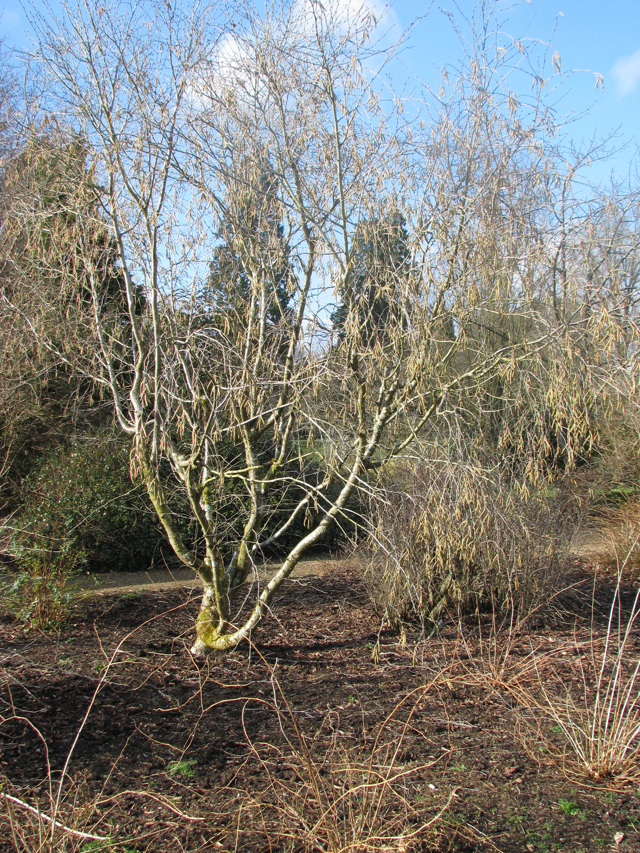 A bit of an untidy specimen maybe, but full of character